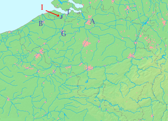 Map of the Isabellakanaal